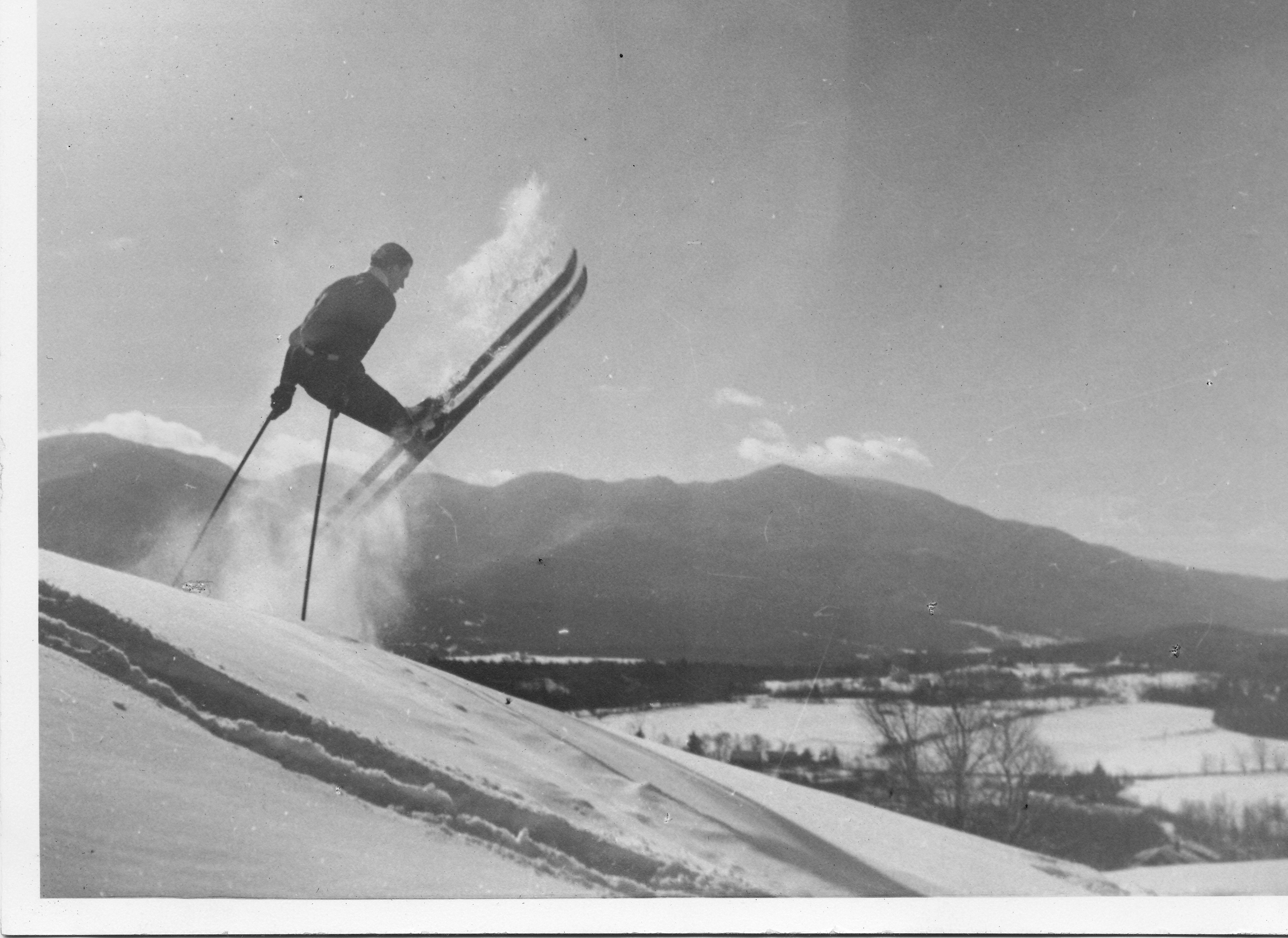 photograph from my father's skiing album